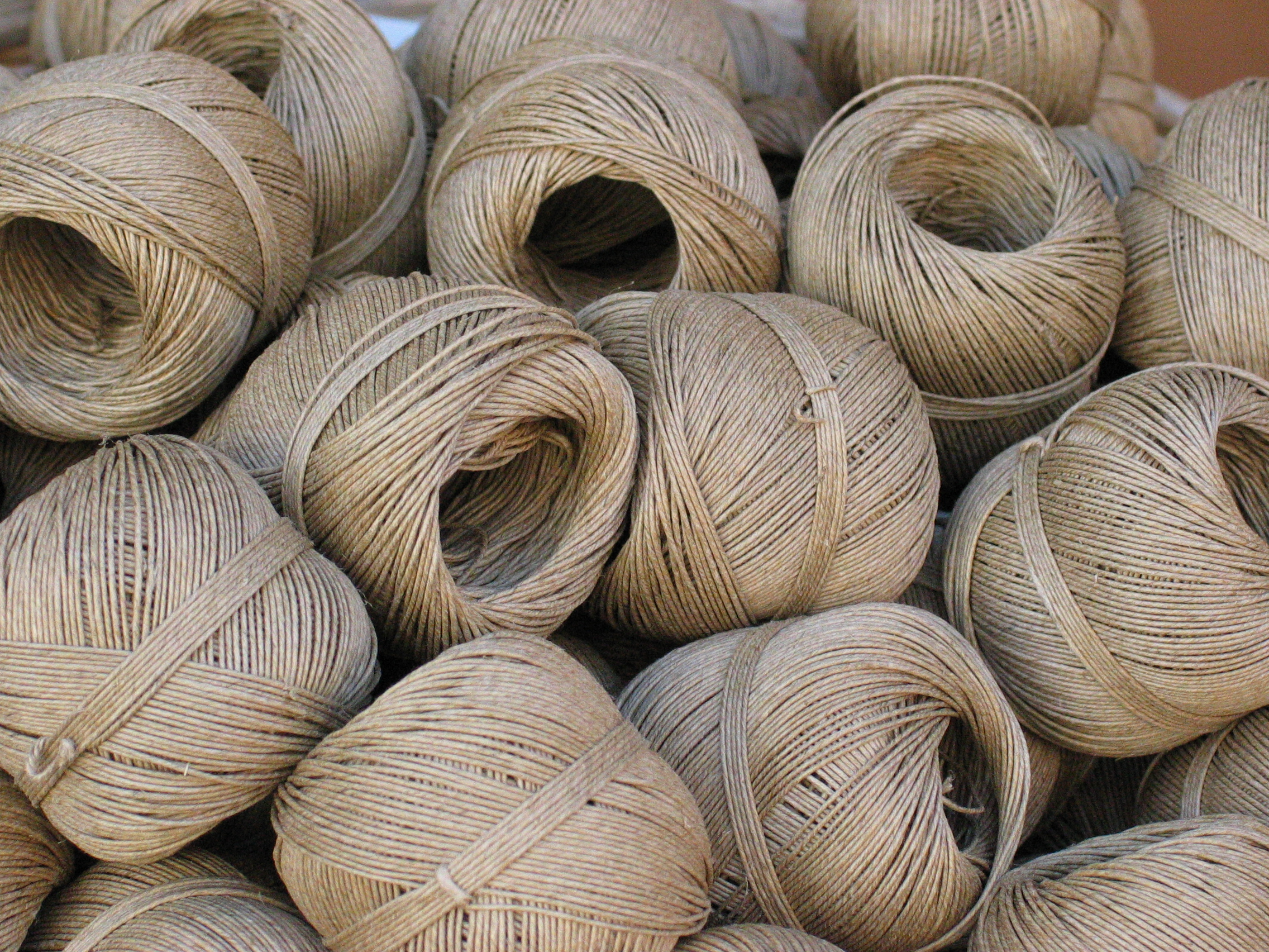 Rolls of pack-twine.